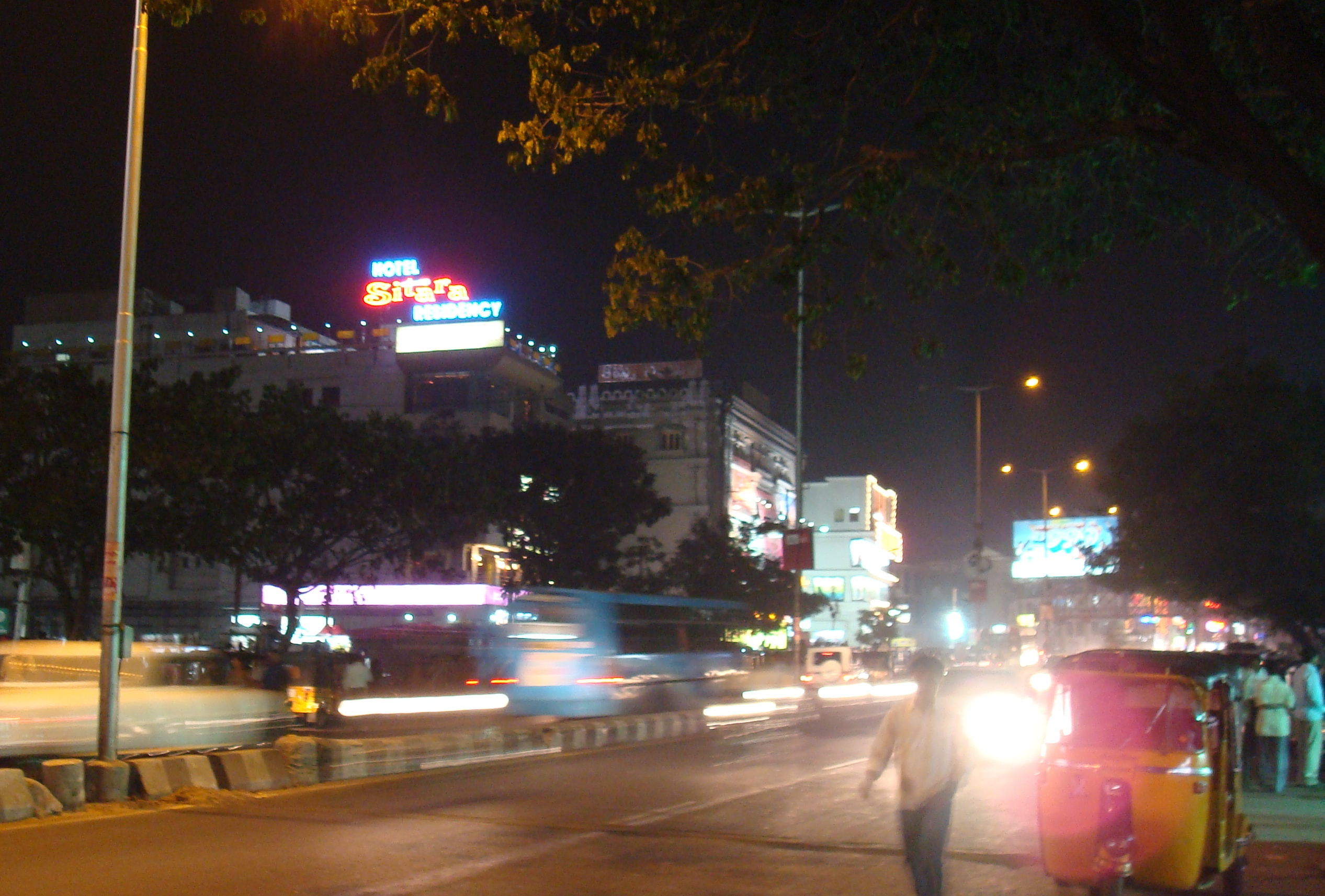 Ameerpet commercial area from a distance.